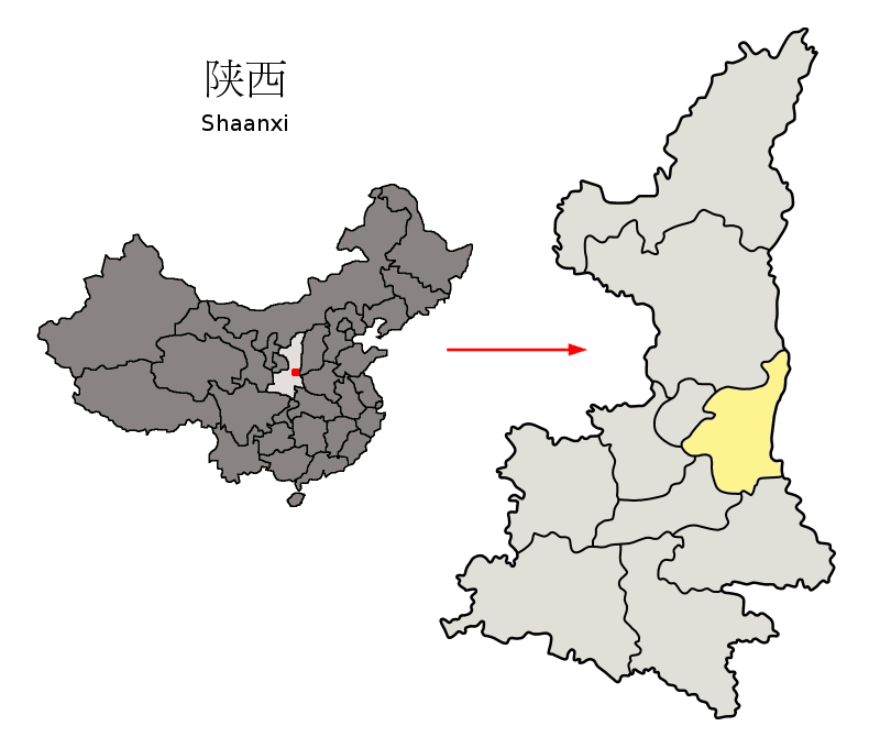 Location of Weinan Prefecture (yellow) within Shaanxi Province of China Map drawn in december 2007 using various sources, mainly : Shaanxi Province administrative regions GIS data: 1:1M, County level, 1990 Shaanxi Counties map from